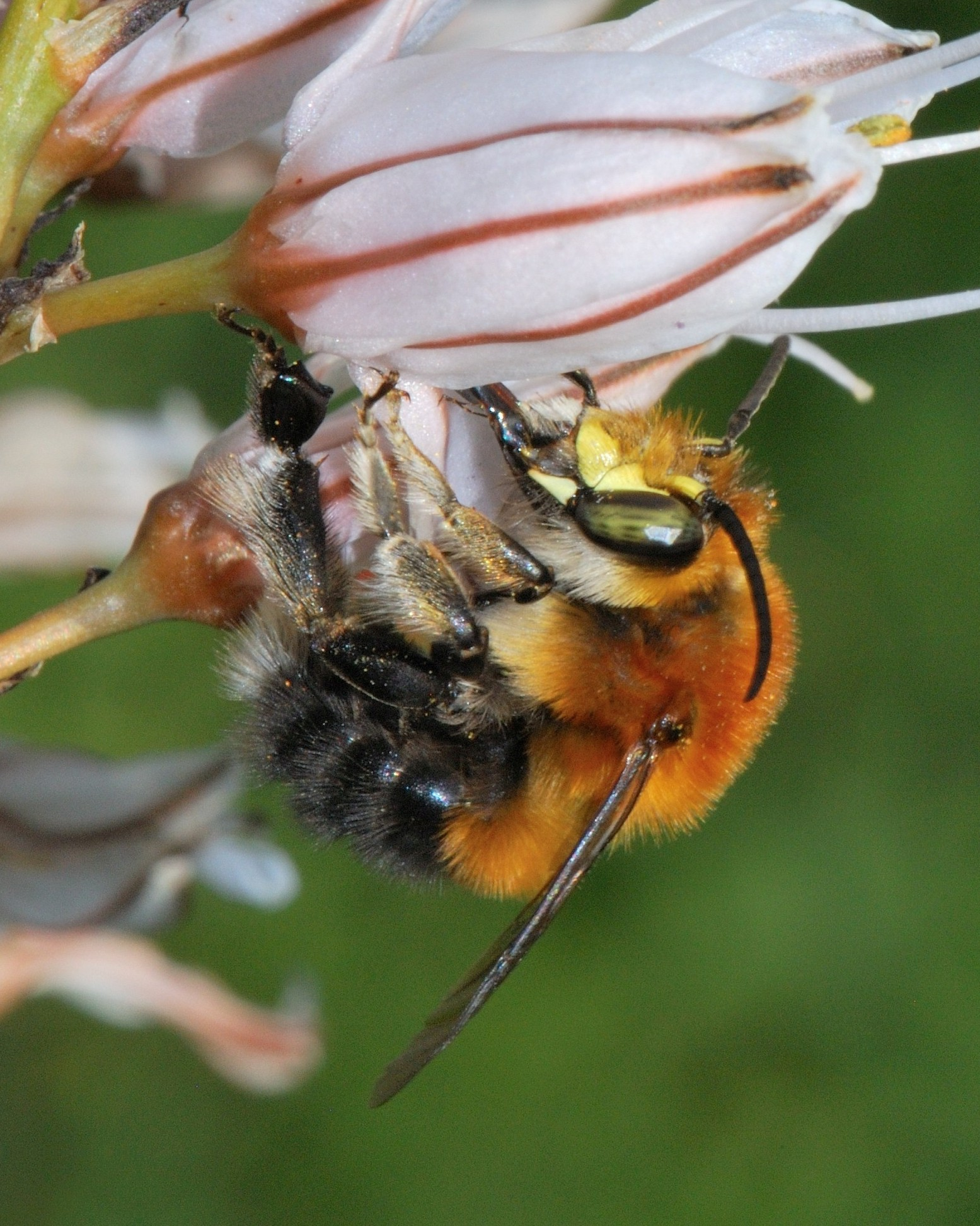 Male bee (Habropoda tarsata), foraging on Asphodelus ramosus, Shajarat Al Arba'in, Mount Carmel, Israel, March 13, 2011.